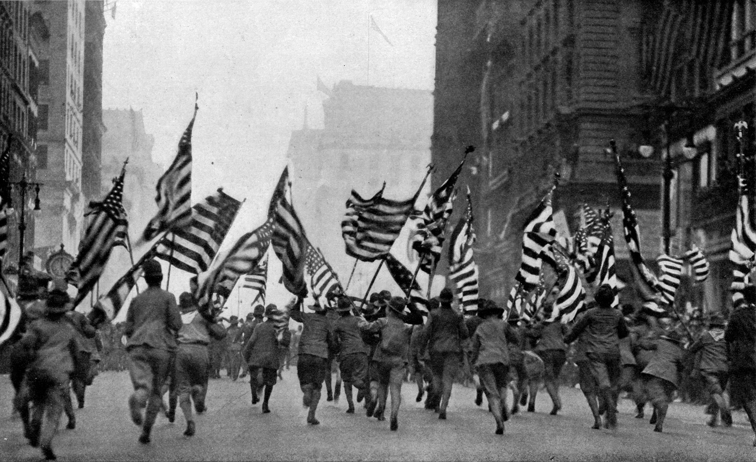 "WAKE UP, AMERICA!" It was an inspiring moment when, during the great parade up Fifth avenue, New York, recently, the boy scouts charged with flags flying. This photograph was taken during the April 19, 1917 Parade in New York City called the "Wake Up, America!" parade. This parade was days after the U.S. declared war on Germany on April 6, signaling our involvement in WWI. President Woodrow Wilson, who was just inaugurated for a second term, called for large recruitment into the armed forces, and these "Wake Up, America" parades were held in many places across the country in support of recruitment. A surprising amount of 60,000 people attended this single parade in New York. This exact photograph was digitized from a 1917 copy of a National Geographics Magazine.